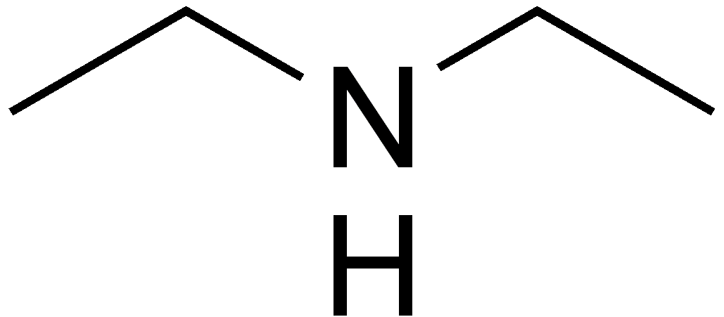 Chemical structure of diethylaminefrom. Transferred from